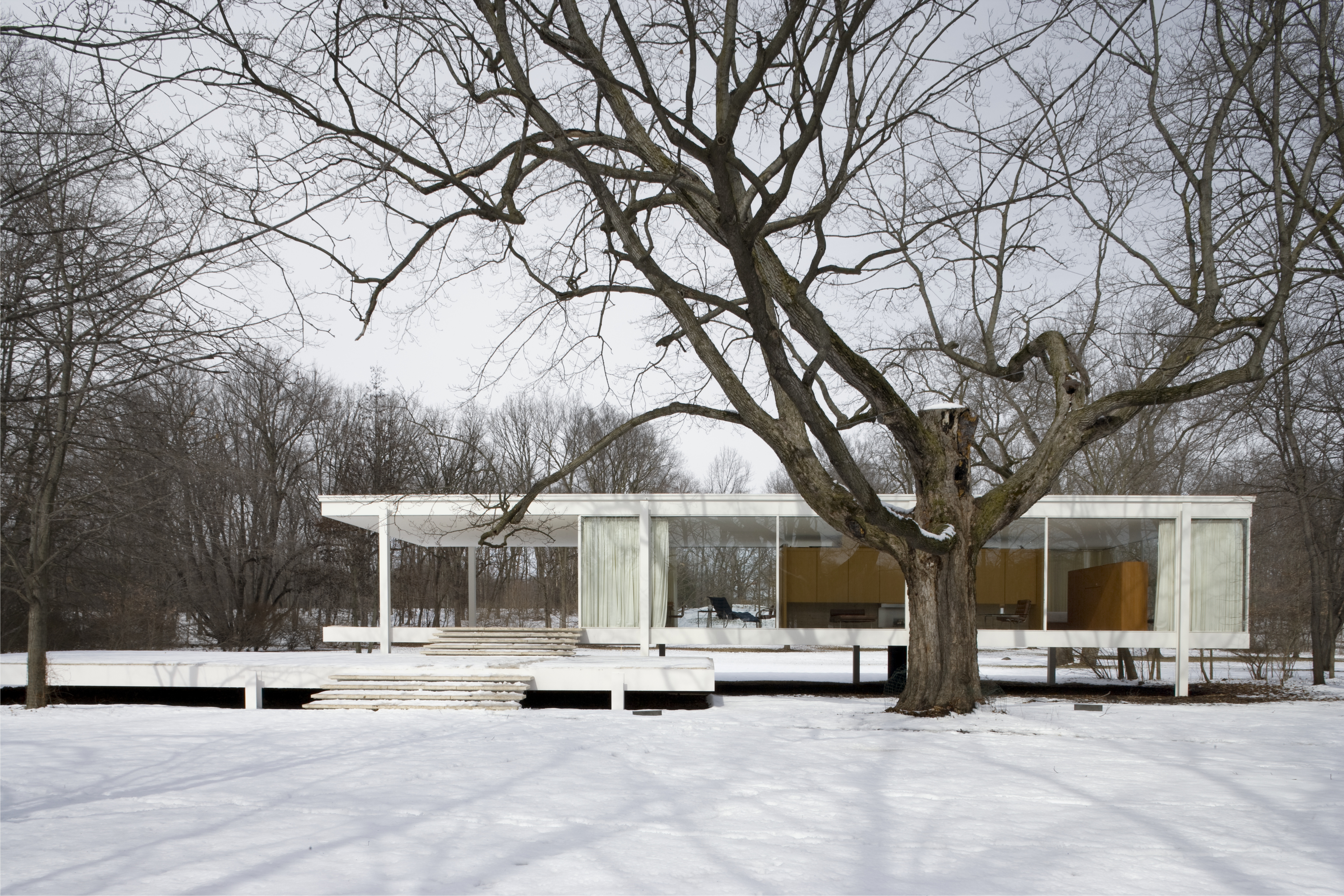 Farnsworth House, Plano, Illinois. Designed by Ludwig Mies van der Rohe.